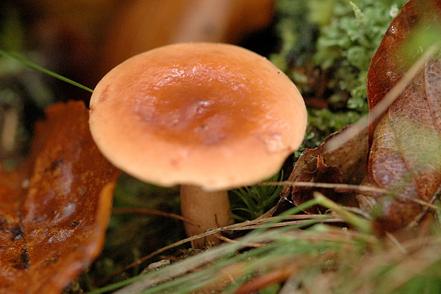 Lactarius spec. from Commanster, Belgium. The determination of the species shown in this picture has been verified.